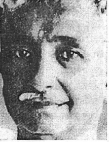 kuvempu